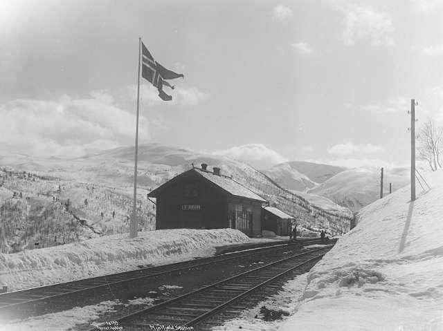 Mjølfjell railway station on Bergensbanen, Norway.